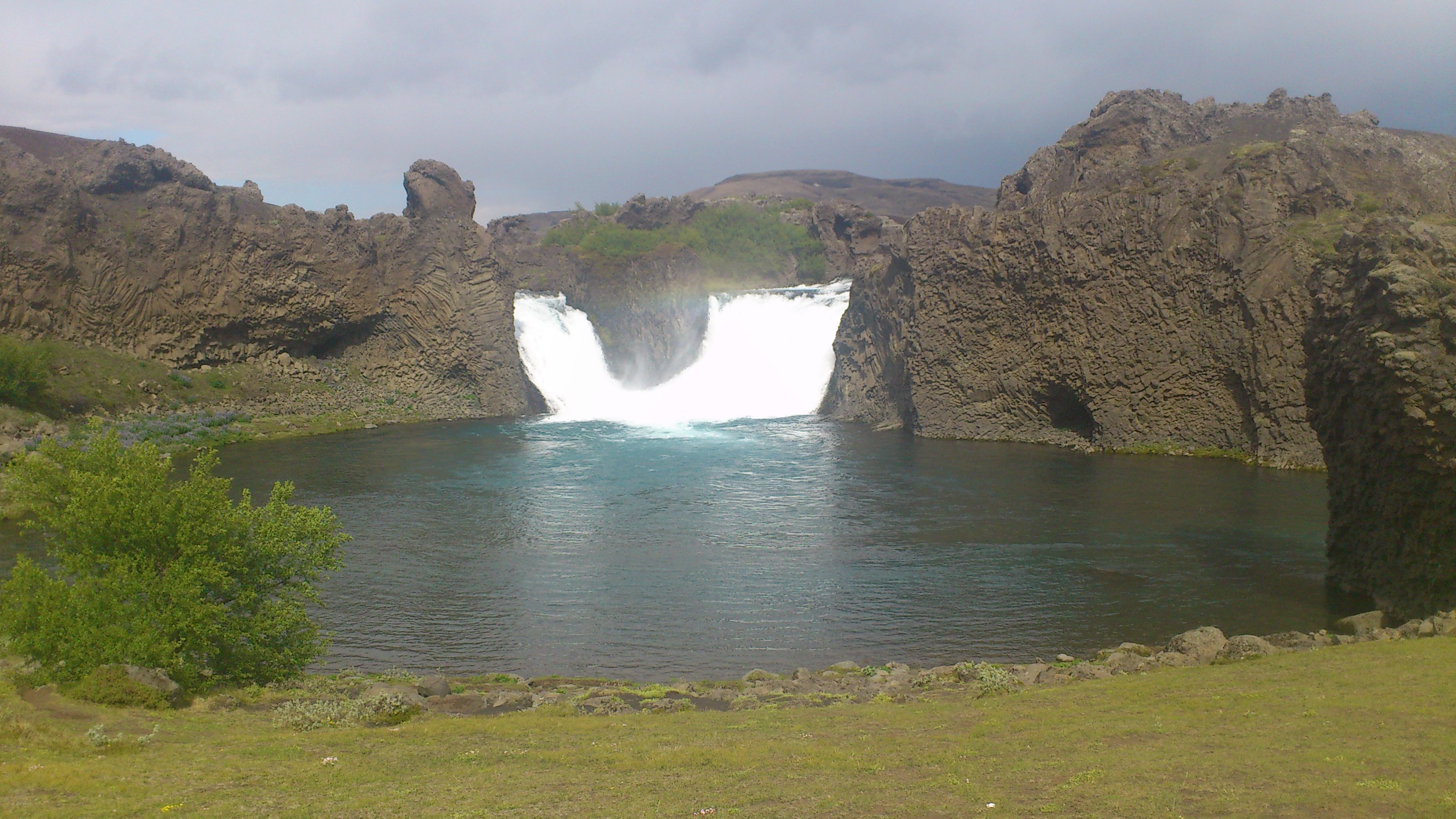 Hjálparfoss in Fossá river, Iceland